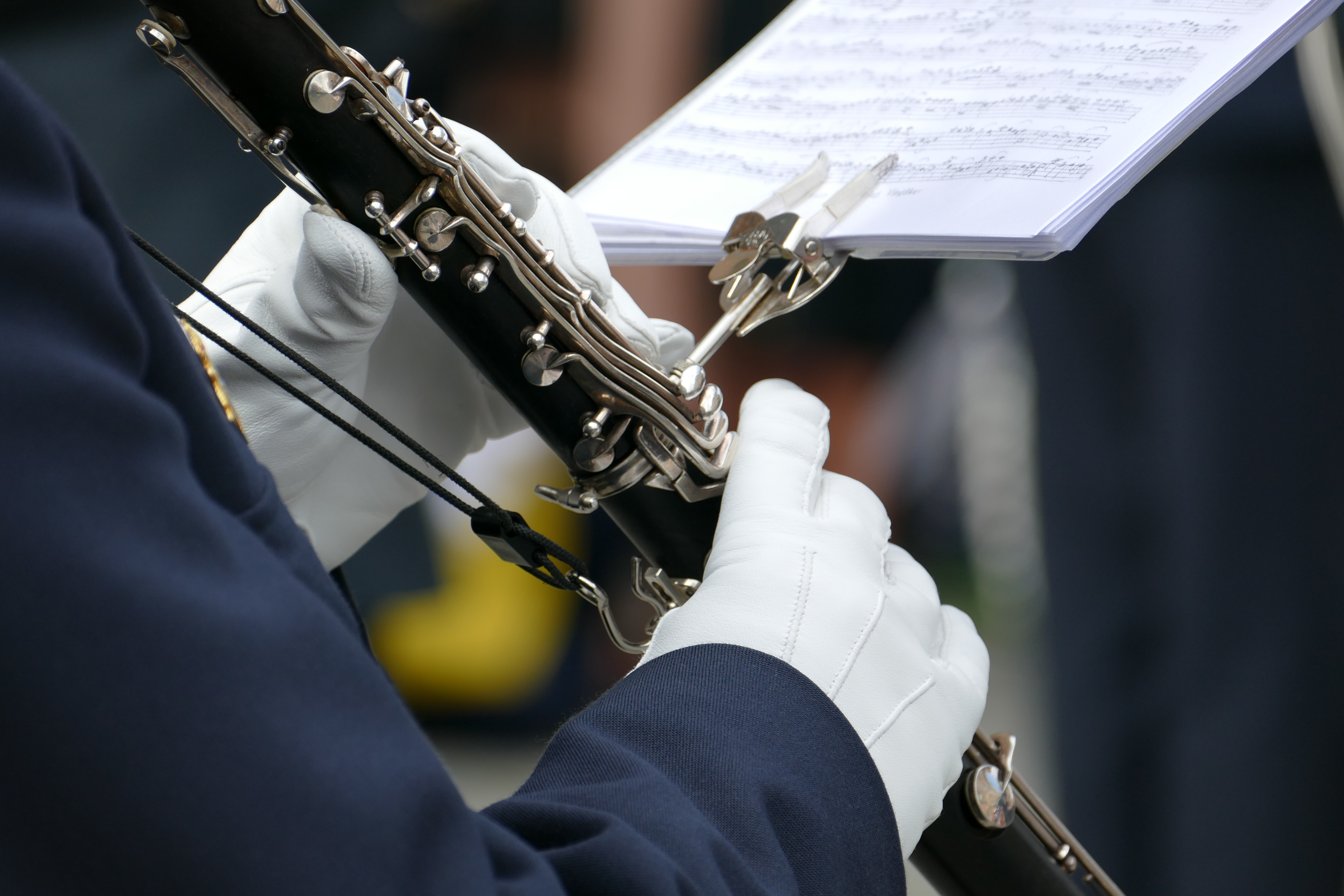 Military orchestra in front of the Stockholm Palace - close up of the gloved hands of a clarinet player playing his instrument